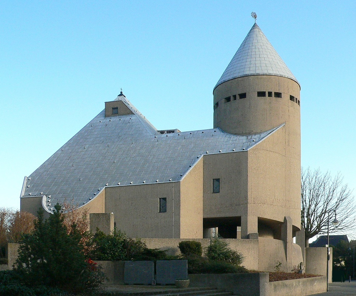 Catholic church of St. Mariä Heimsuchung in Impekoven